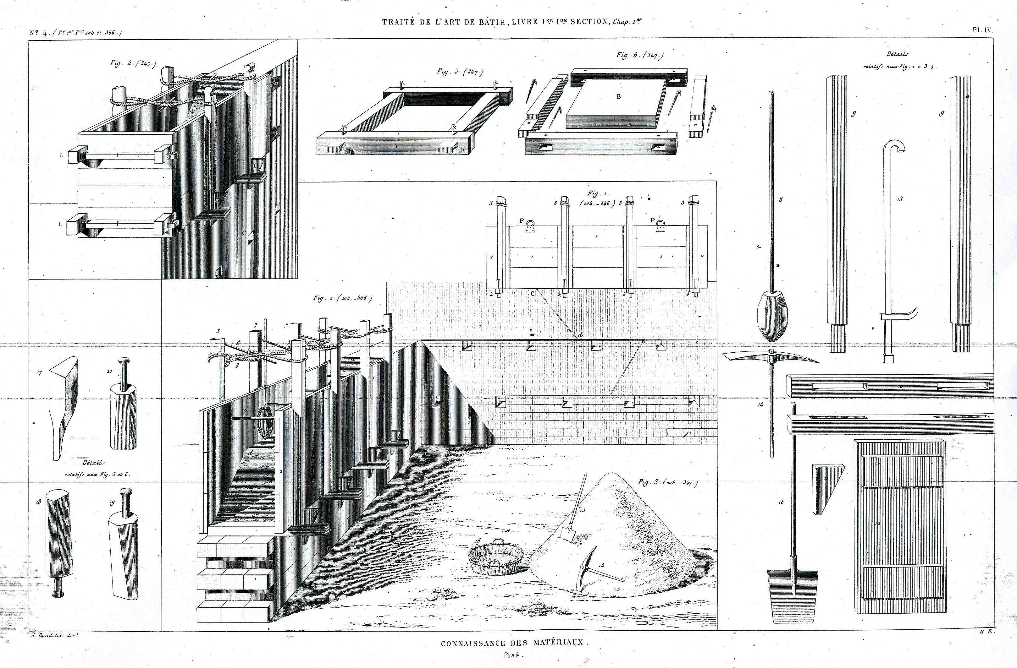 Connaissance des matèriaux